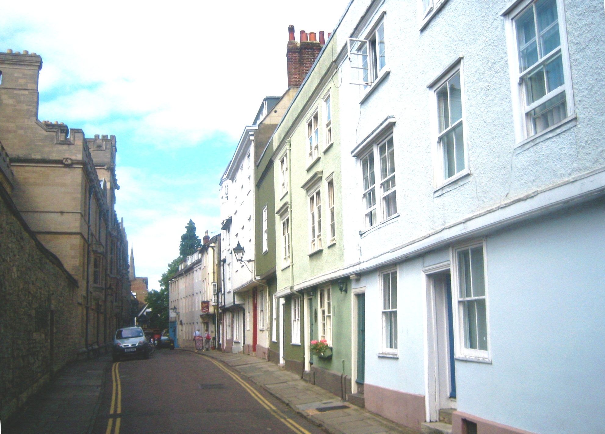 Houses on Ship Street, Oxford with Jesus College on the left. The house on the right with the flowers in the window doubled as a fish and chip shop in the Endeavour episode "Harvest" (2017). A similar view of the street can be seen in "Neverland".